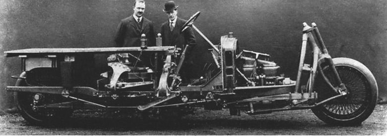 The Russian two-wheel car in London. 1913.